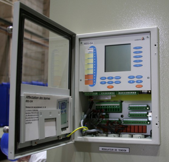 Automatic voltage regulator, Reg-DA by A-Eberle.